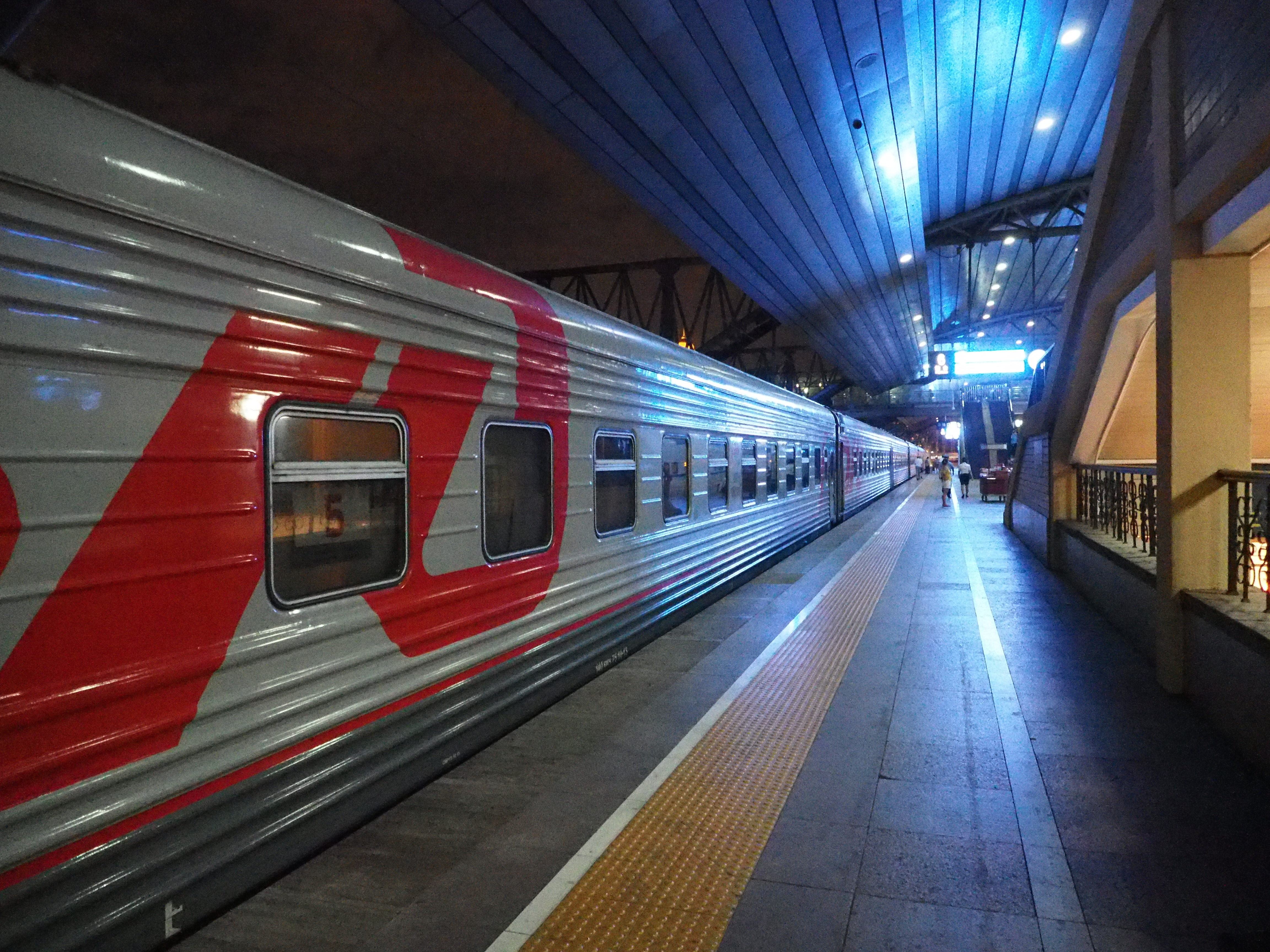 Train 19 The Vostok